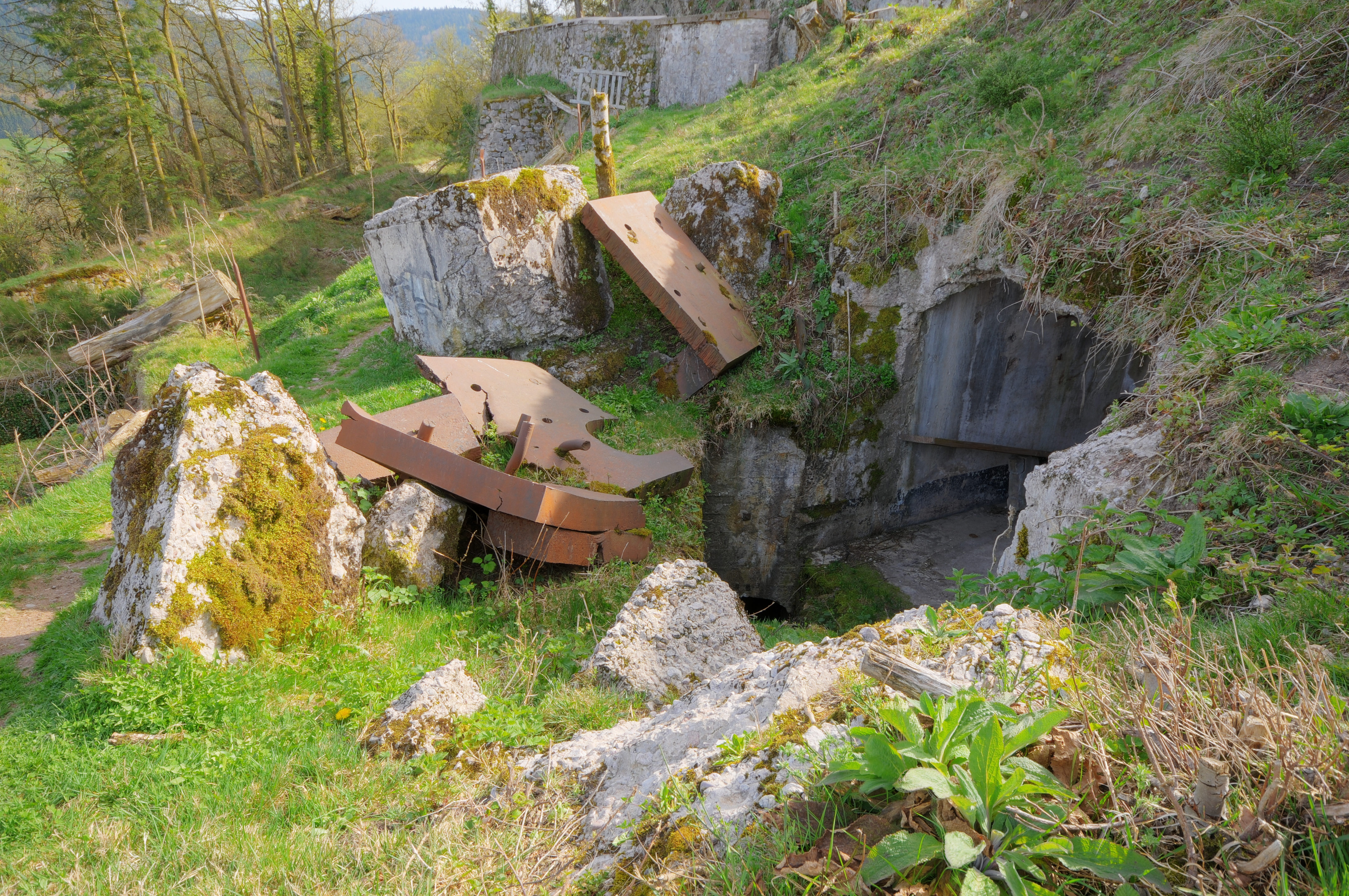 This photograph was taken with a Nikon D300 Restes de la casemate Mougin. Parmont hill fortifications (HDR).